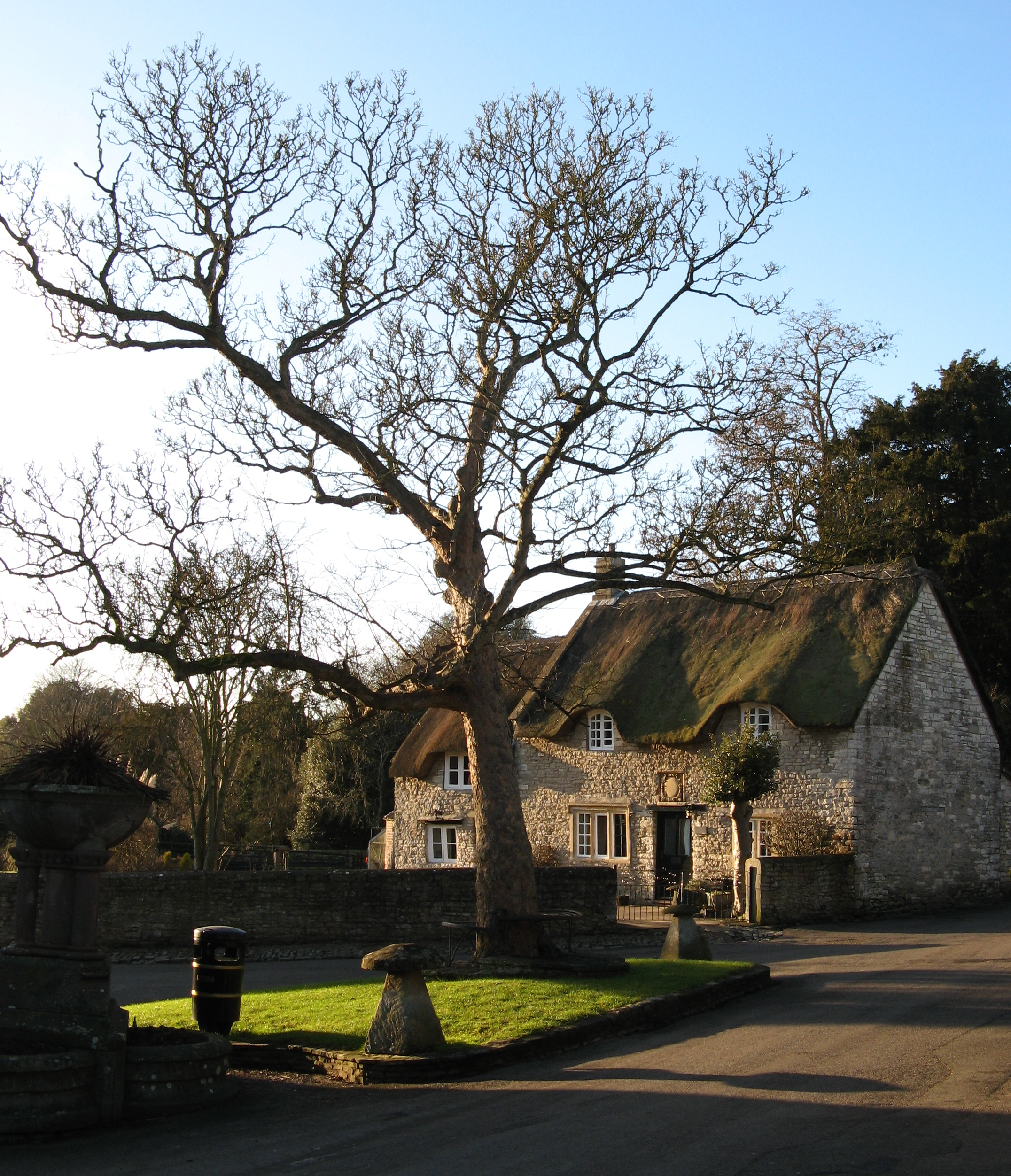 Mid to late 17th century cottage called "The Thatch", a Grade II listed building,[1] in Newton St Loe, Bath and North East Somerset. In the bottom left, part of the Village Fountain can be seen, also Grade II listed.[2]